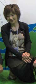 Tetsuo Saitō, Minister of the Environment, posed for photos with Shinji Mizushima, Chairman of the International Comic Artist Conference Execution Committee, Machiko Satonaka, Representative Director of the Manga Japan, Tetsuya Chiba, Executive Director of Japan Cartoonists Association, and Monkey Punch, President of the Digital Manga Association, at the International Comic Artist Conference Fiesta in Kyōto City, Kyōto Prefecture on September 6, 2009.